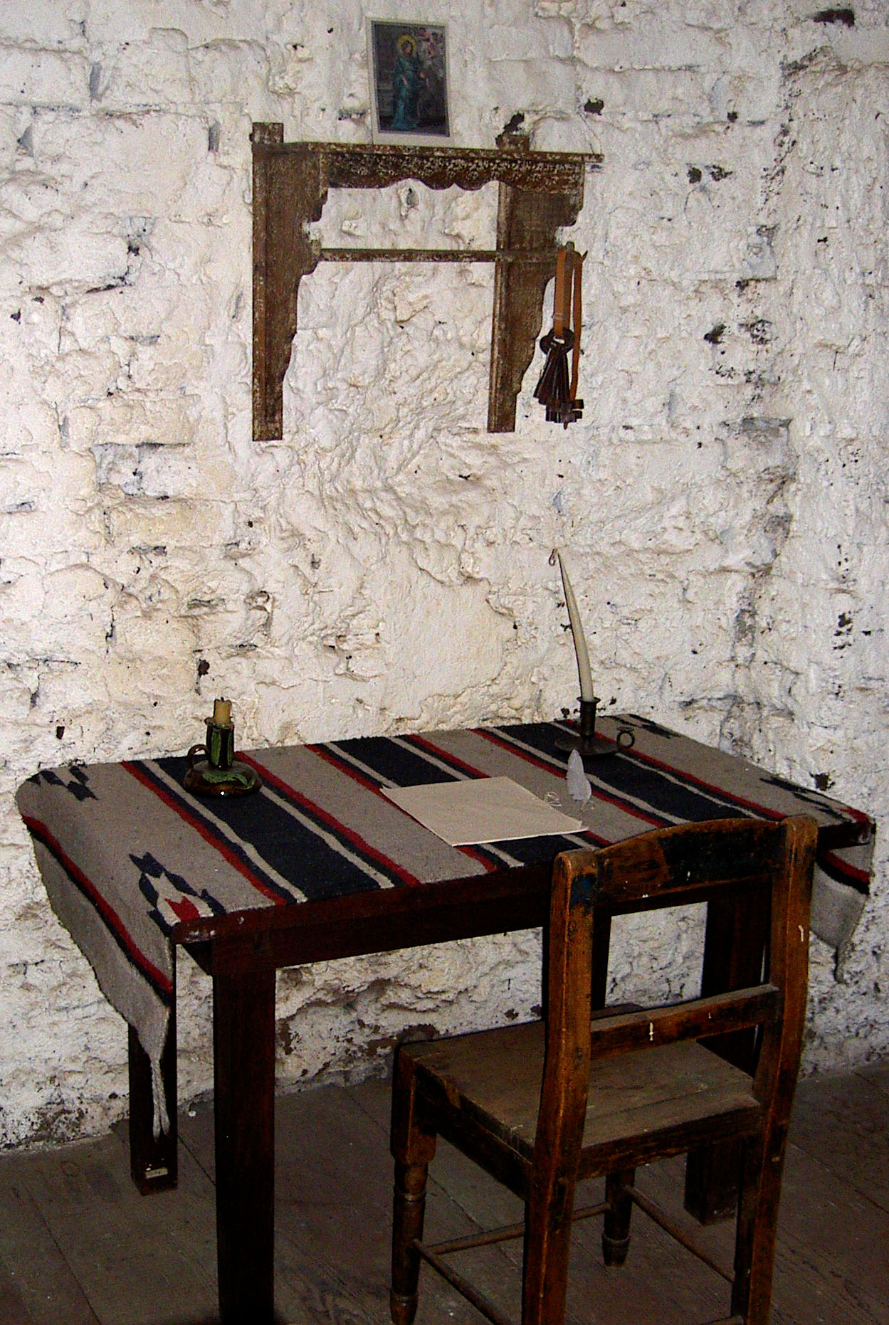 desk in the majordomo's room